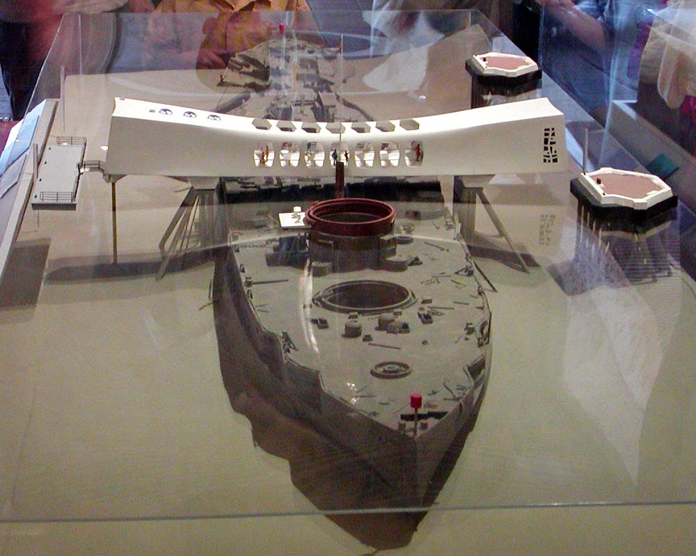 Photo of model of Arizona Memorial